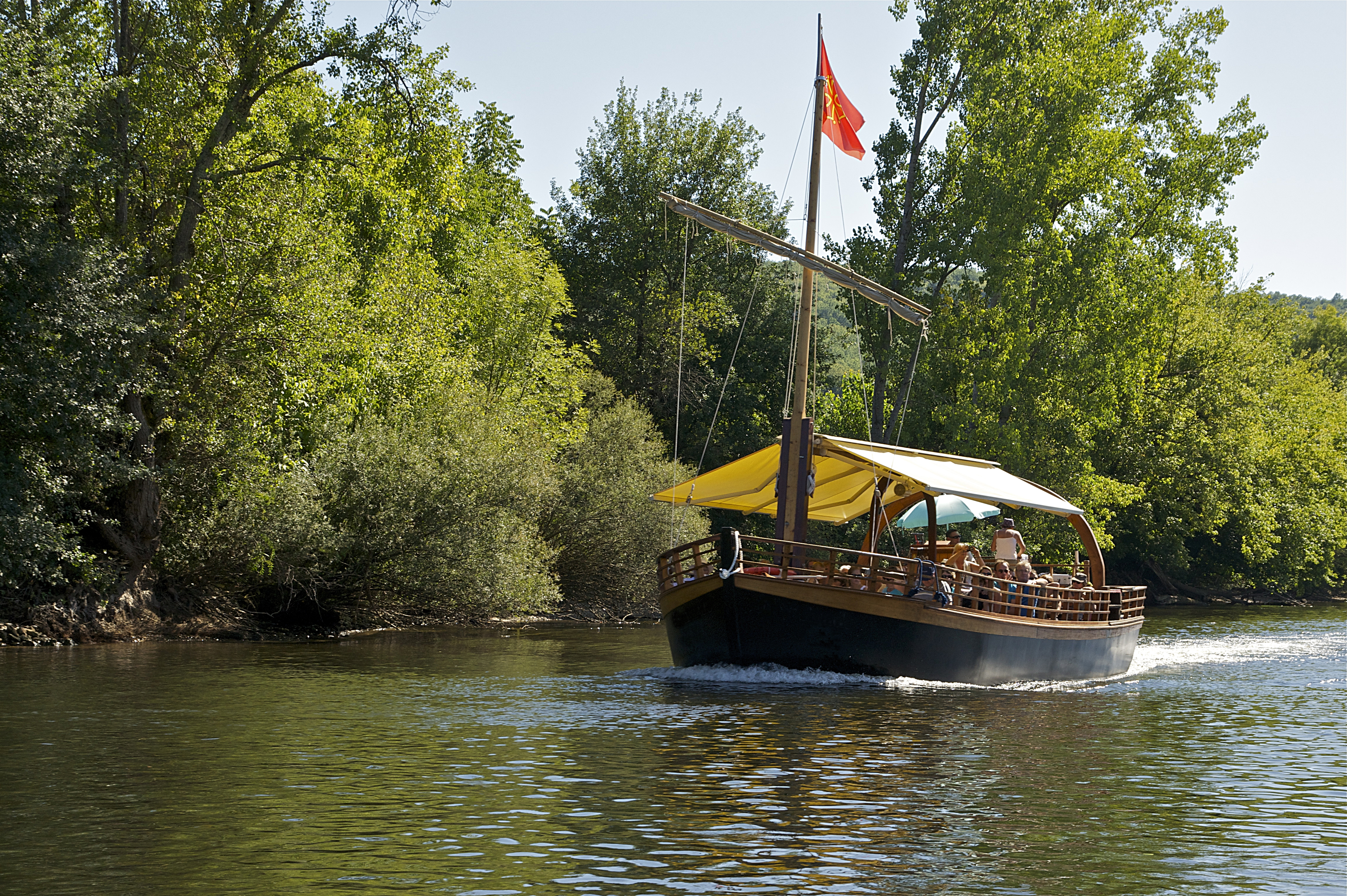 A gabare, typical scow of the Dordogne river, now used for touristic tours